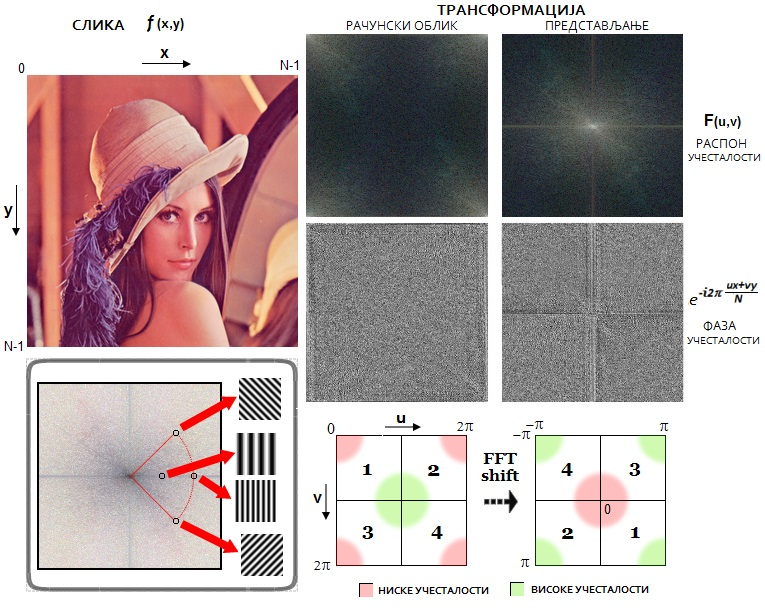 СЛИКЕ ФУРИЈЕОВЕ ТРАНСФОРМАЦИЈЕ